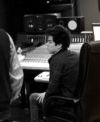 Fernando Garibay